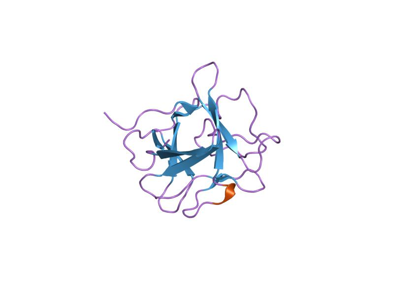 Cartoon representation of the molecular structure of protein registered with 1qql code.